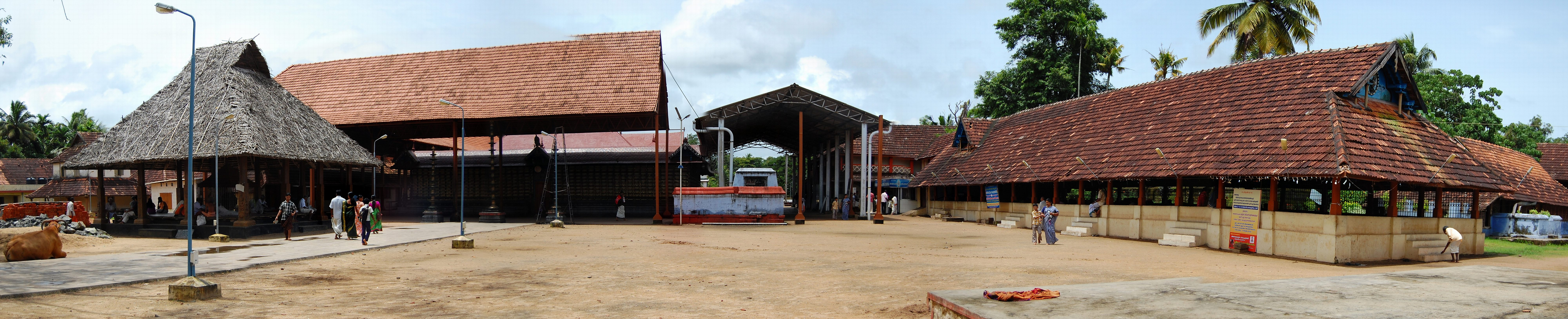 Ambalapuzha Sreekrishna Temple